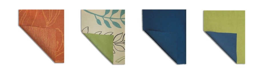 Several pieces of fabric printed with the AirDye technology